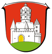 Coat of Arms of Ronneburg